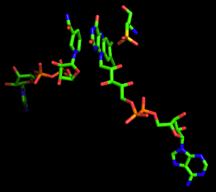 Alignment of NADH, FAD and Cysteine 42 in NADH Peroxidase. Adapted from RCSB Protein Bank PDB 2NPX.